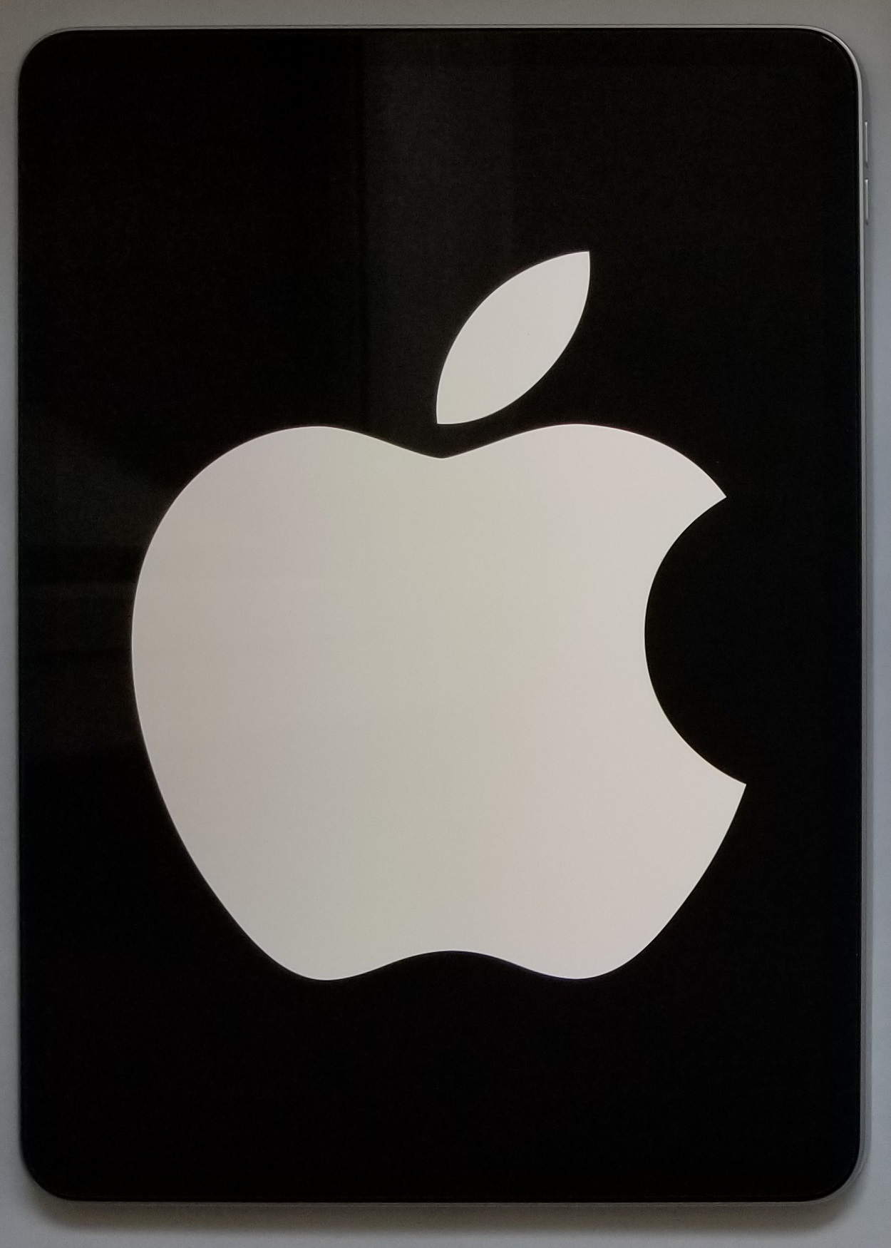 iPad Pro 11″ (silver)